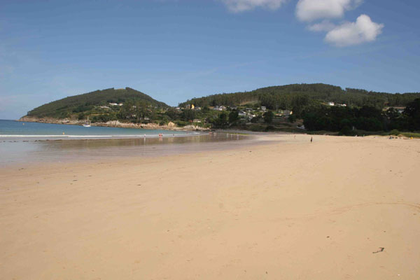 Area Beach in Viveiro (Galicia, Spain)